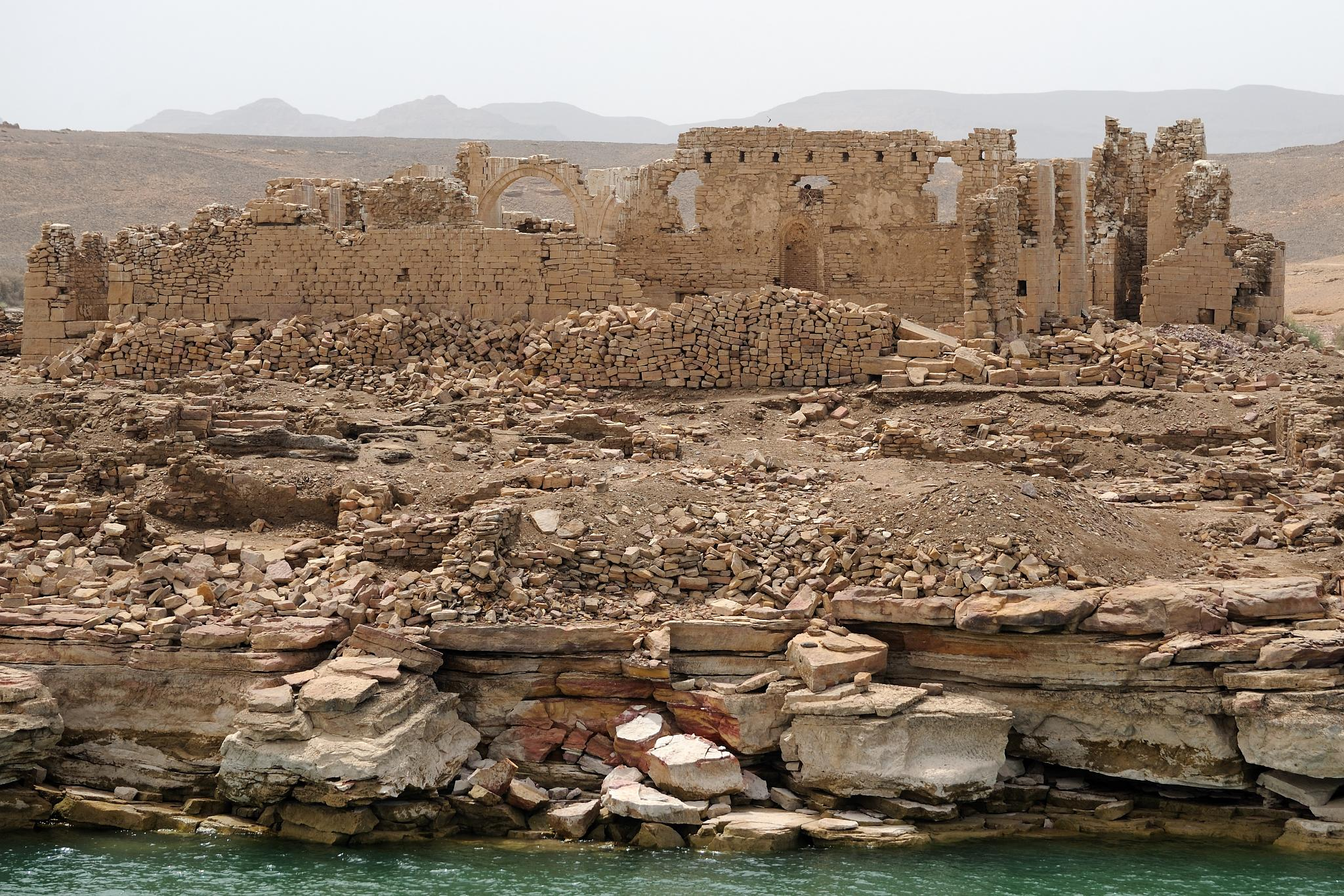 The remains of the Egyptian fort of Qasr Ibrim. It was the only structure which was not relocated when the Great Aswan Dam was built.